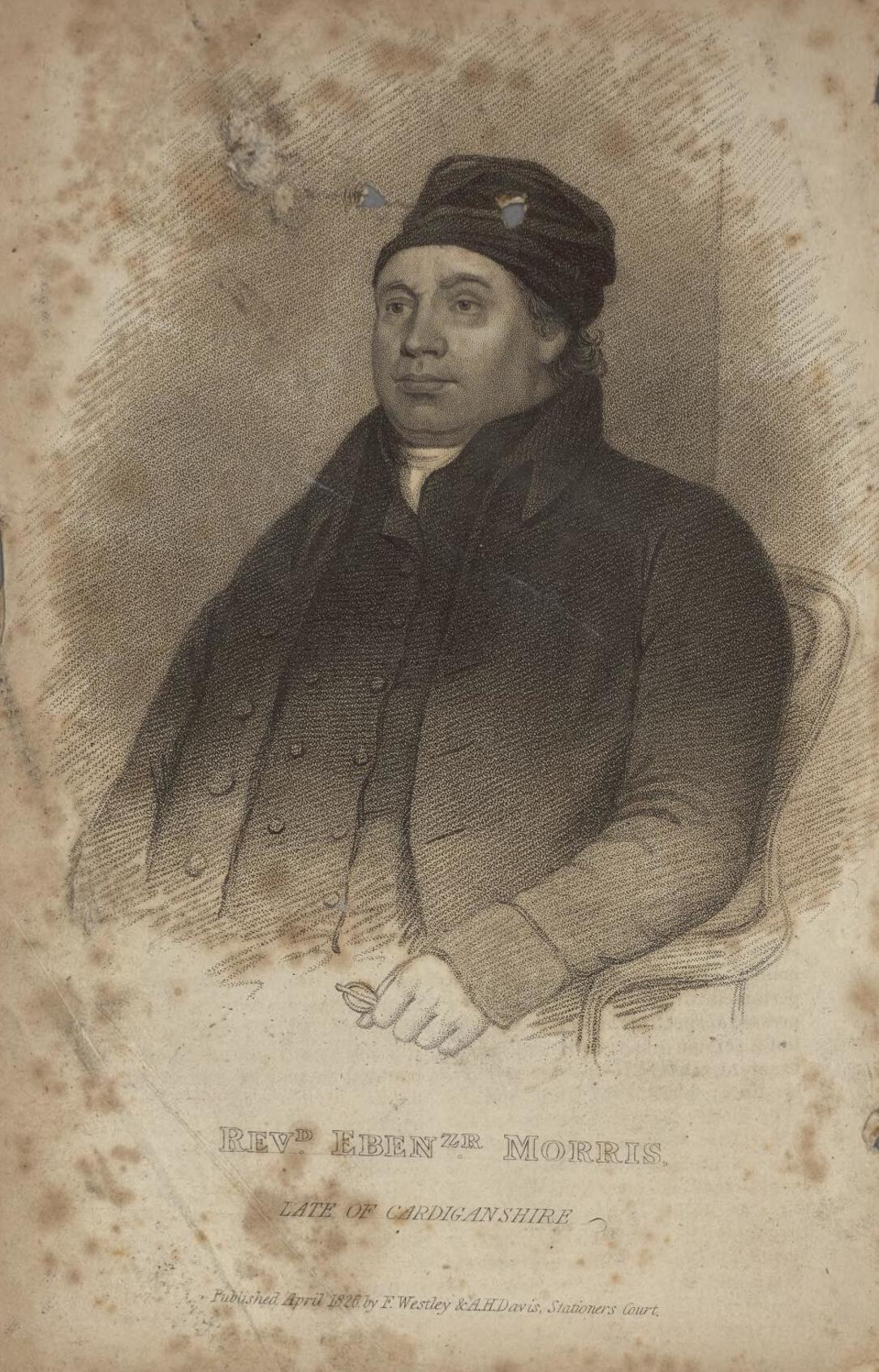 A portrait from the Welsh Portrait Collection at the National Library of Wales. Depicted person: Ebenezer Morris – Welsh Calvinistic Methodist minister (1769-1825)